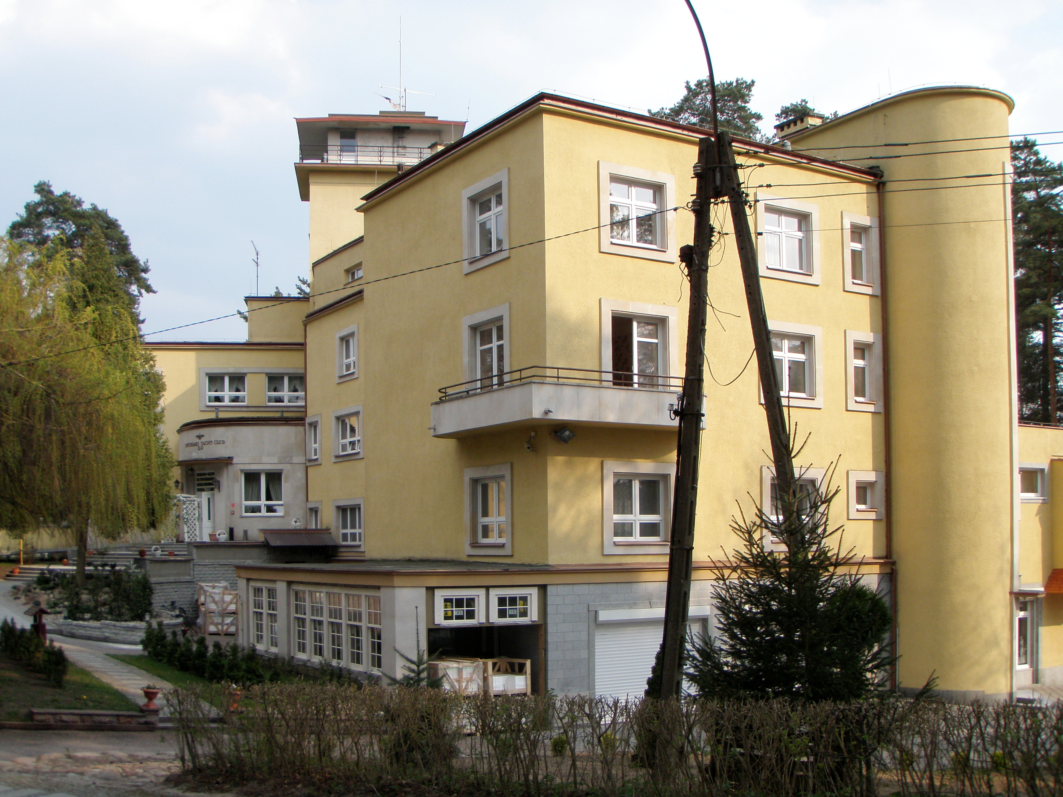 Officer Yacht Club in Augustów, Poland